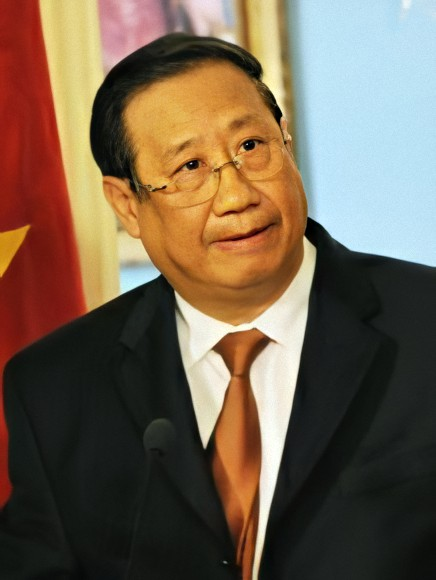 Portrait of Pham Gia Khiem, Deputy Prime Minister and Minister of Foreign Affairs of Vietnam